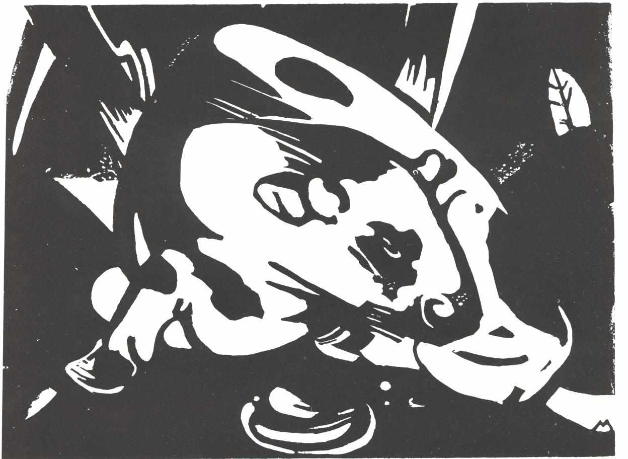 The bull